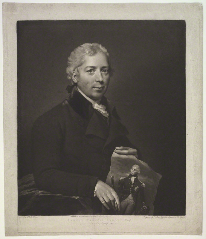 Lemuel Francis Abbott by Valentine Green, after Lemuel Francis Abbott mezzotint, published 1805.